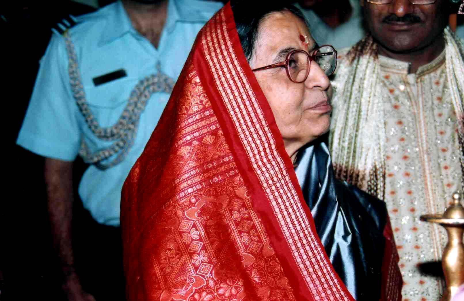 Pratibha Patil as the Governor of Rajasthan.